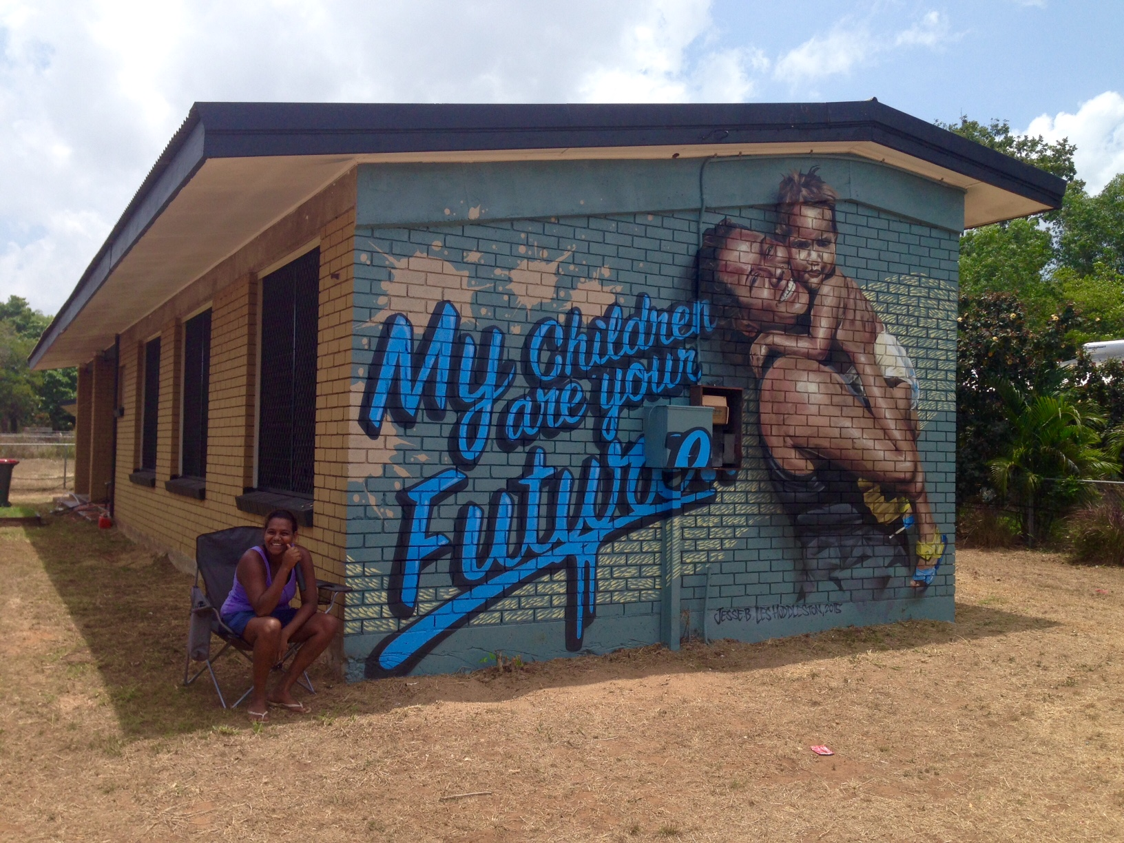 Bagot Community Painting Home Project in Darwin, Northern Territory, Australia in November 2015